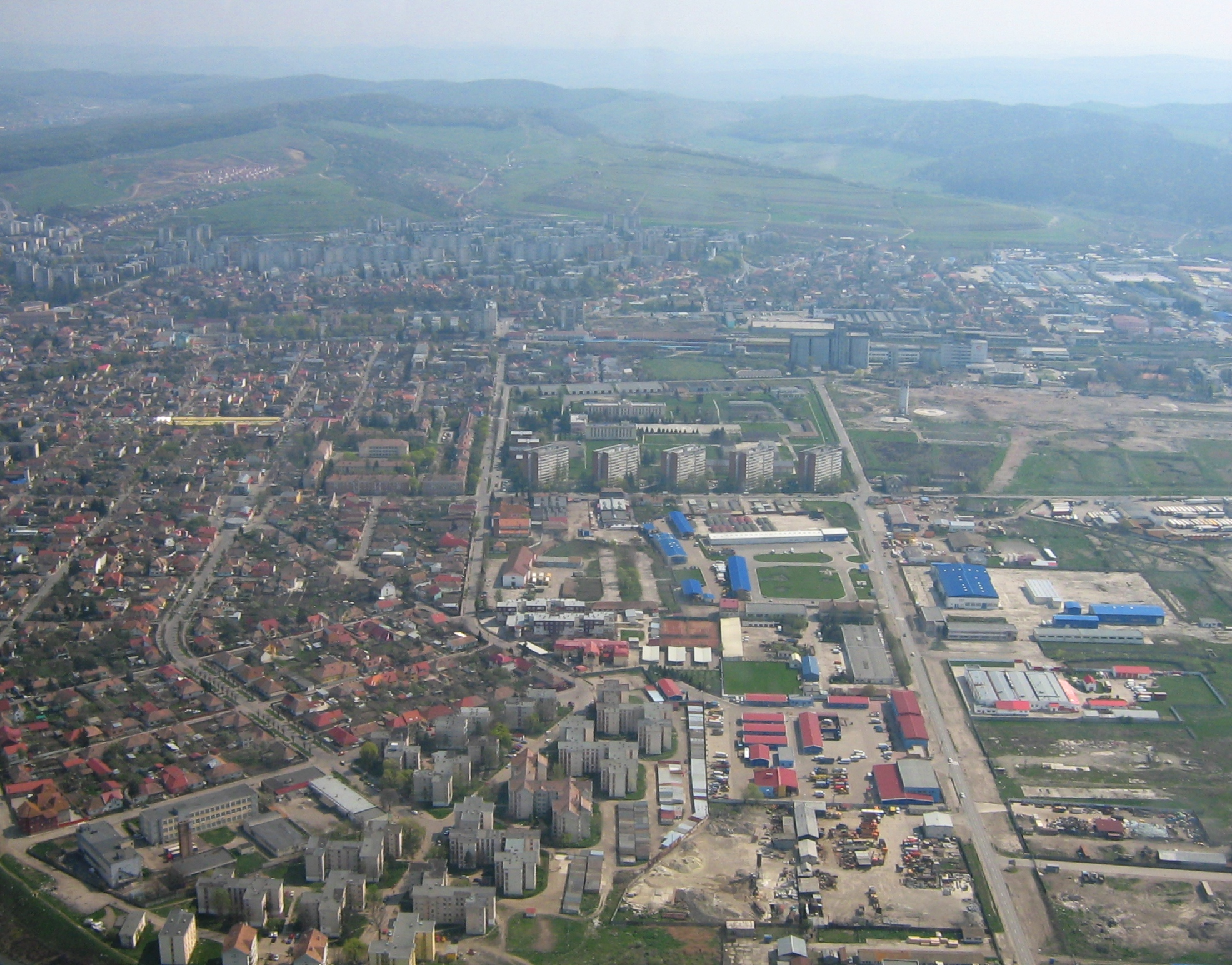 The Ady district in Târgu Mureș